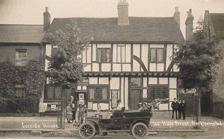 Photograph of Dean Incent's House, High Street, Berkhamsted, Hertfordshire, England. Once the home of John Incent (c. 1480–1545), later Dean of St Paul's Cathedral, it was occupied by the photographer J.T. Newman from around 1907/8 who set up a studio there. A family (possibly Newman's) poses outside the house and an early automobile is parked on the road.